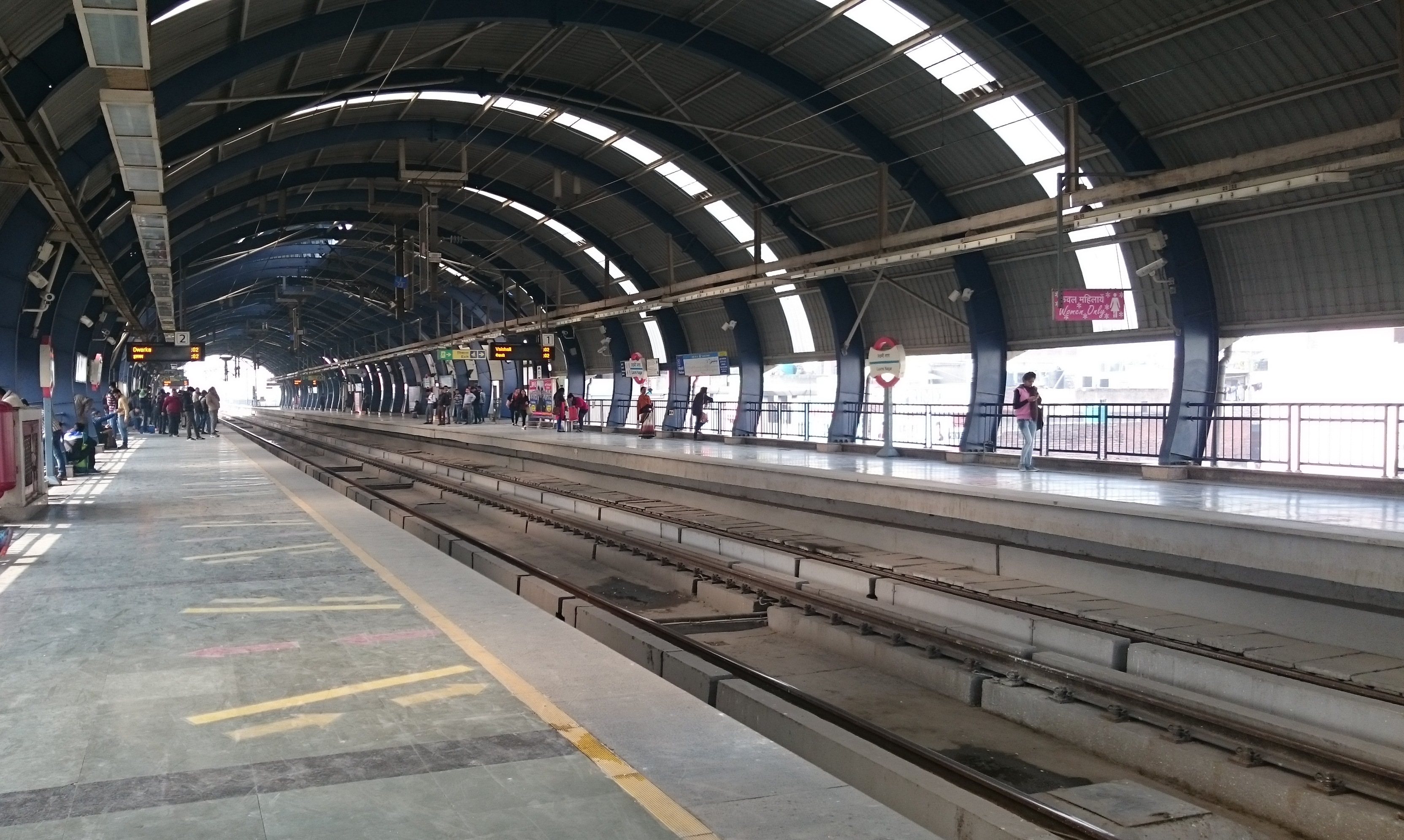 Laxmi Nagar metro station platform